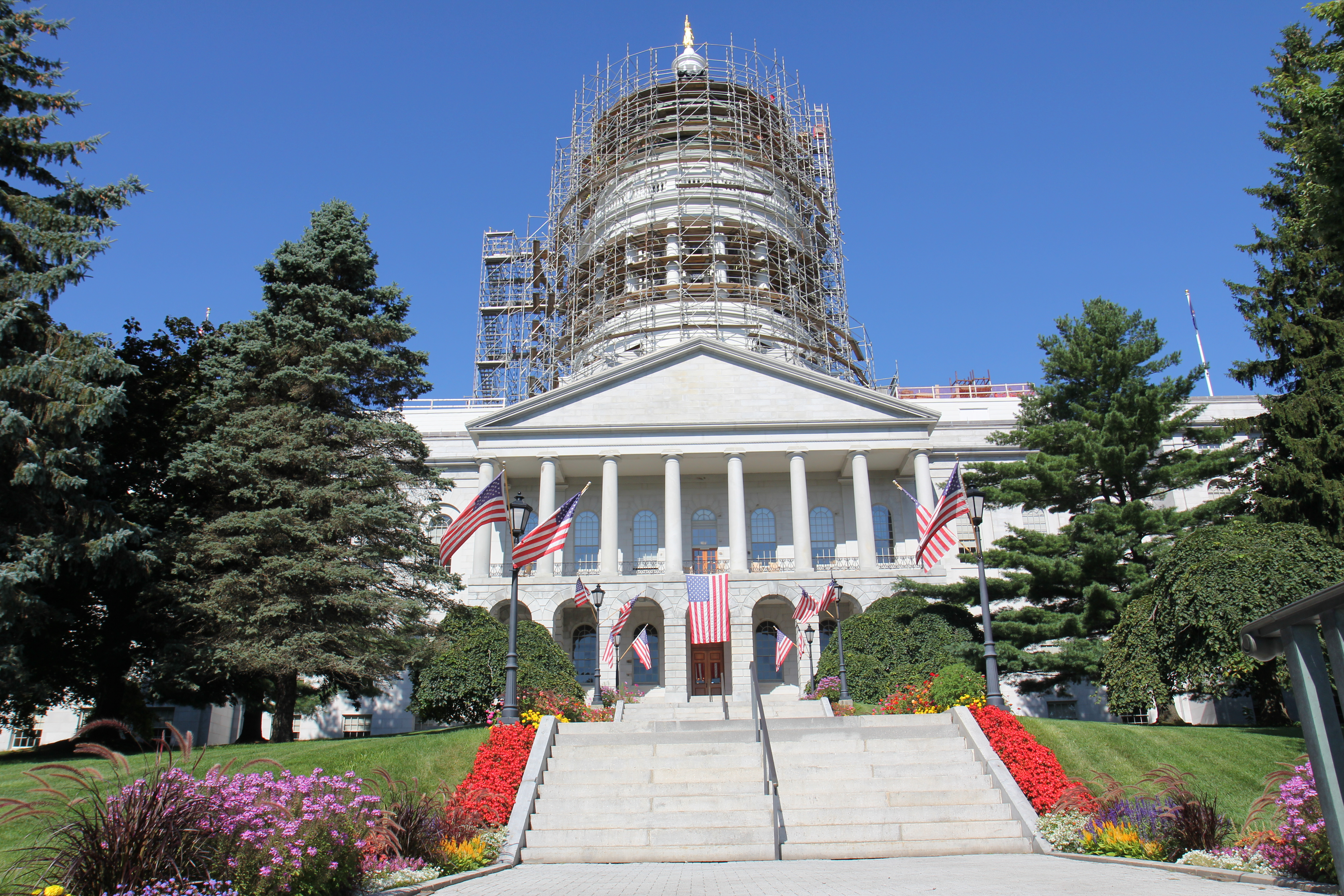 Reconstruction of the dome at the Maine State House, Capitol St. Augusta, Maine.